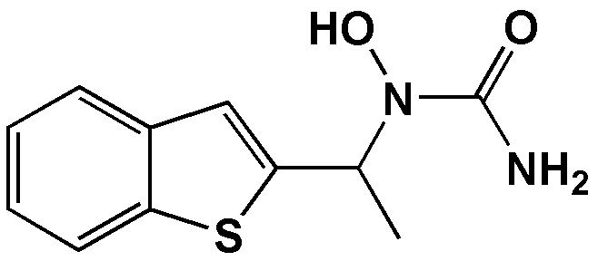 DescriptionThe structure of ZileutonProgramChemDraw 9